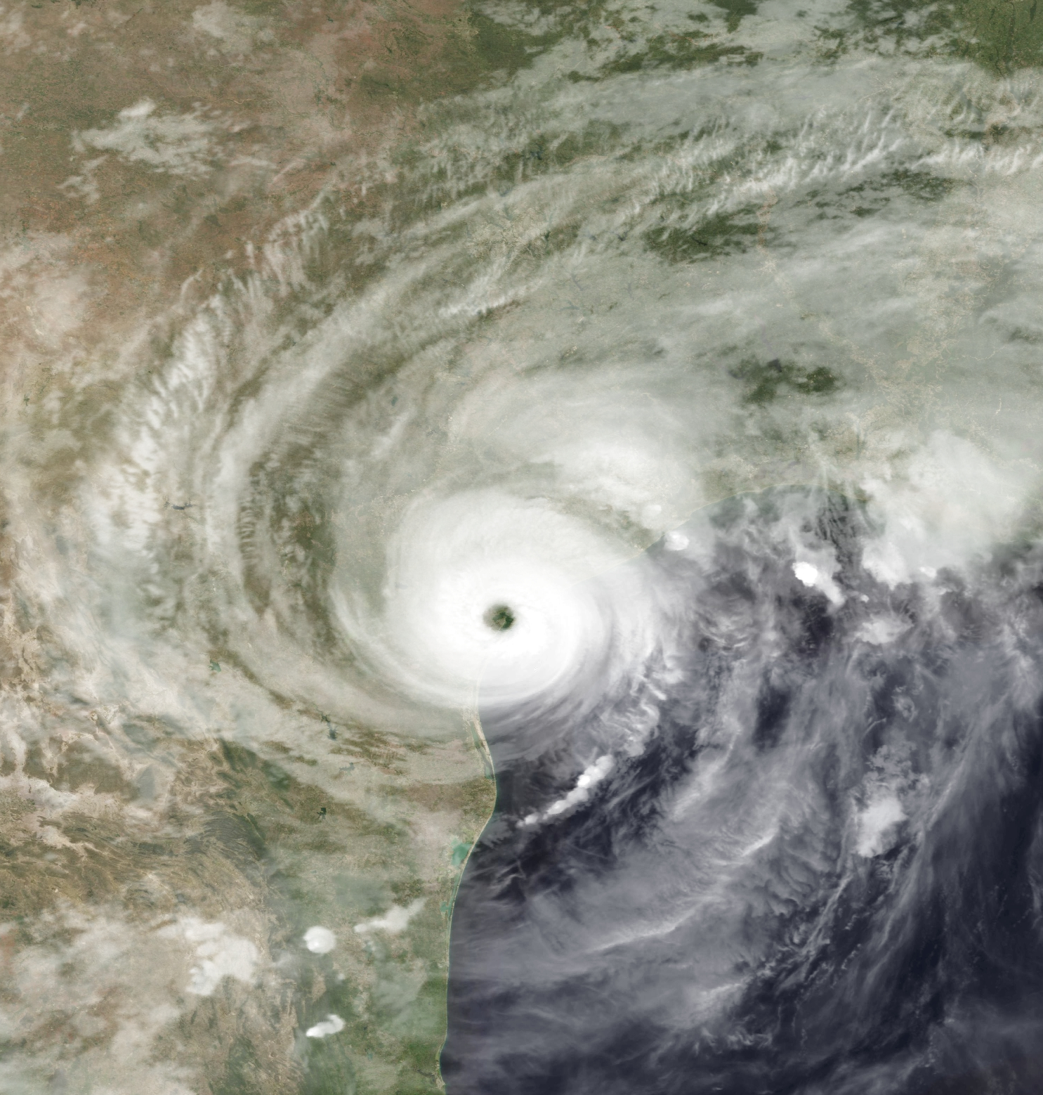 Hurricane Harvey moving over Aransas Bay at 04:25 UTC on August 26, 2017. At the time, Harvey was a Category 4 hurricane with winds of 115 kn (215 km/h, 130 mph).